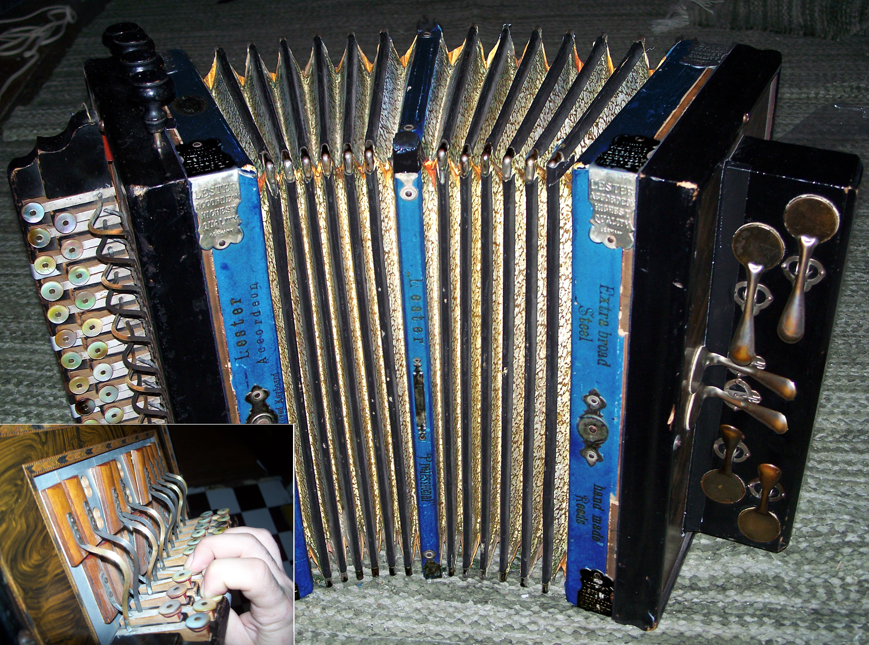 This is a photo I took of my early 20th century diatonic button accordion, made by the Lester company. Provided for use on Wikipedia. May be used elsewhere as long as you credit Nathan McKnight.